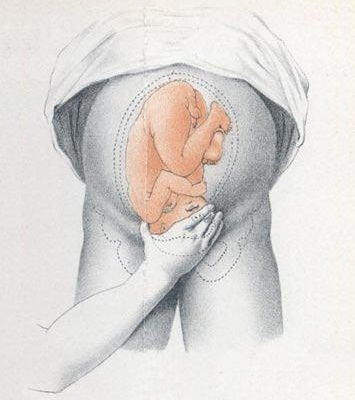 Leopold's Maneuver 3